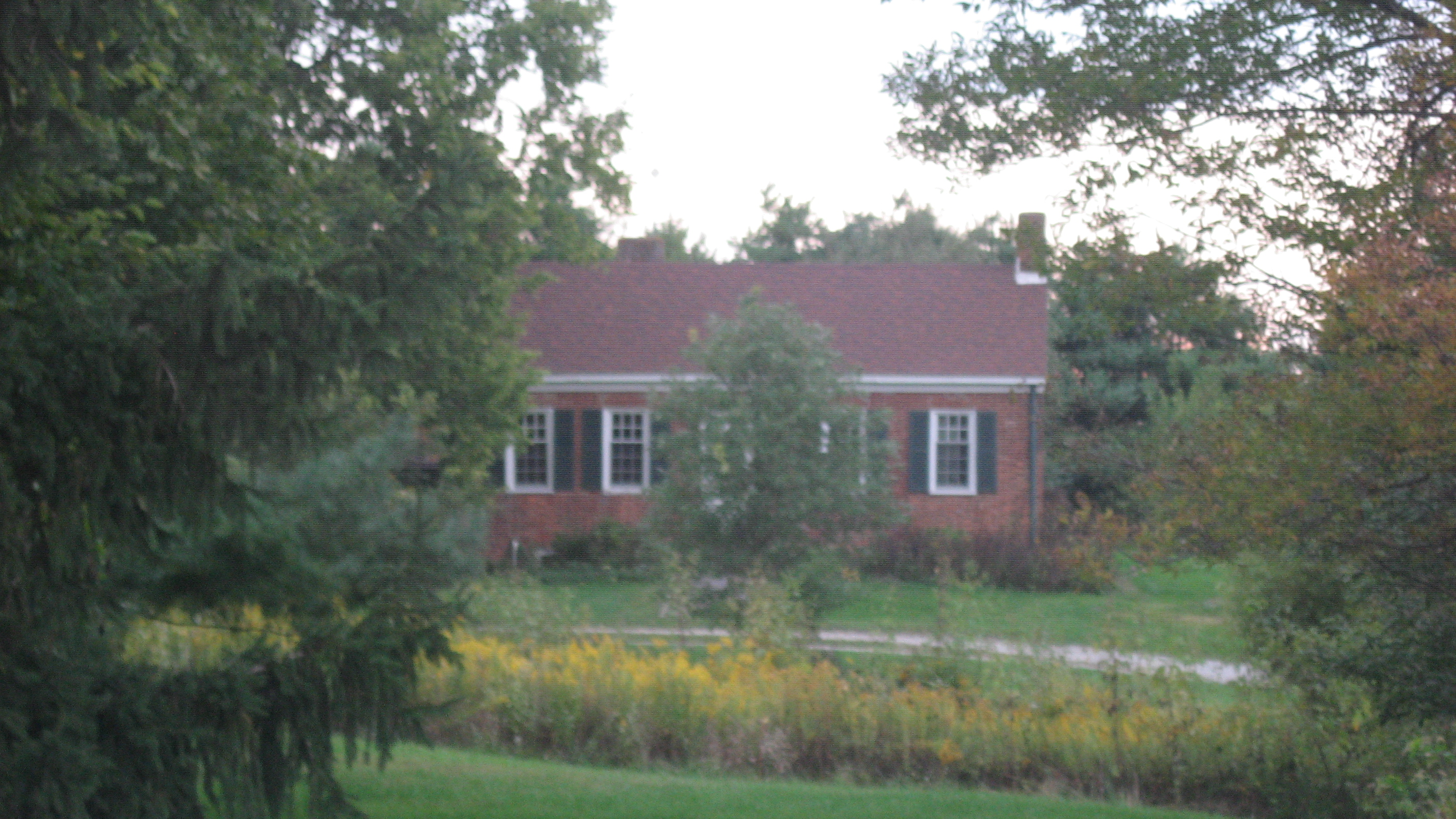 Front of the William Lowry House, located on W600N southeast of Bentonville in Posey Township, Fayette County, Indiana, United States. Built in 1825, it is listed on the National Register of Historic Places.